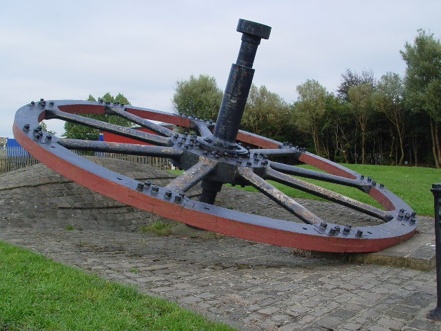 Monument to the Low Moor Steel Works. "On the plaque next to it: "This 30.5 ton 16 inch Rolling Mill Flywheel from the former Low Moor Steel Works was donated to Bradford Council in 1982 by Mr Alan Elsworth of Messrs Elsworth and Son". It is possible that the council maybe confused as the company was called historically Low Moor Ironworks and the flywheel is more likely to be 16 foot diameter"